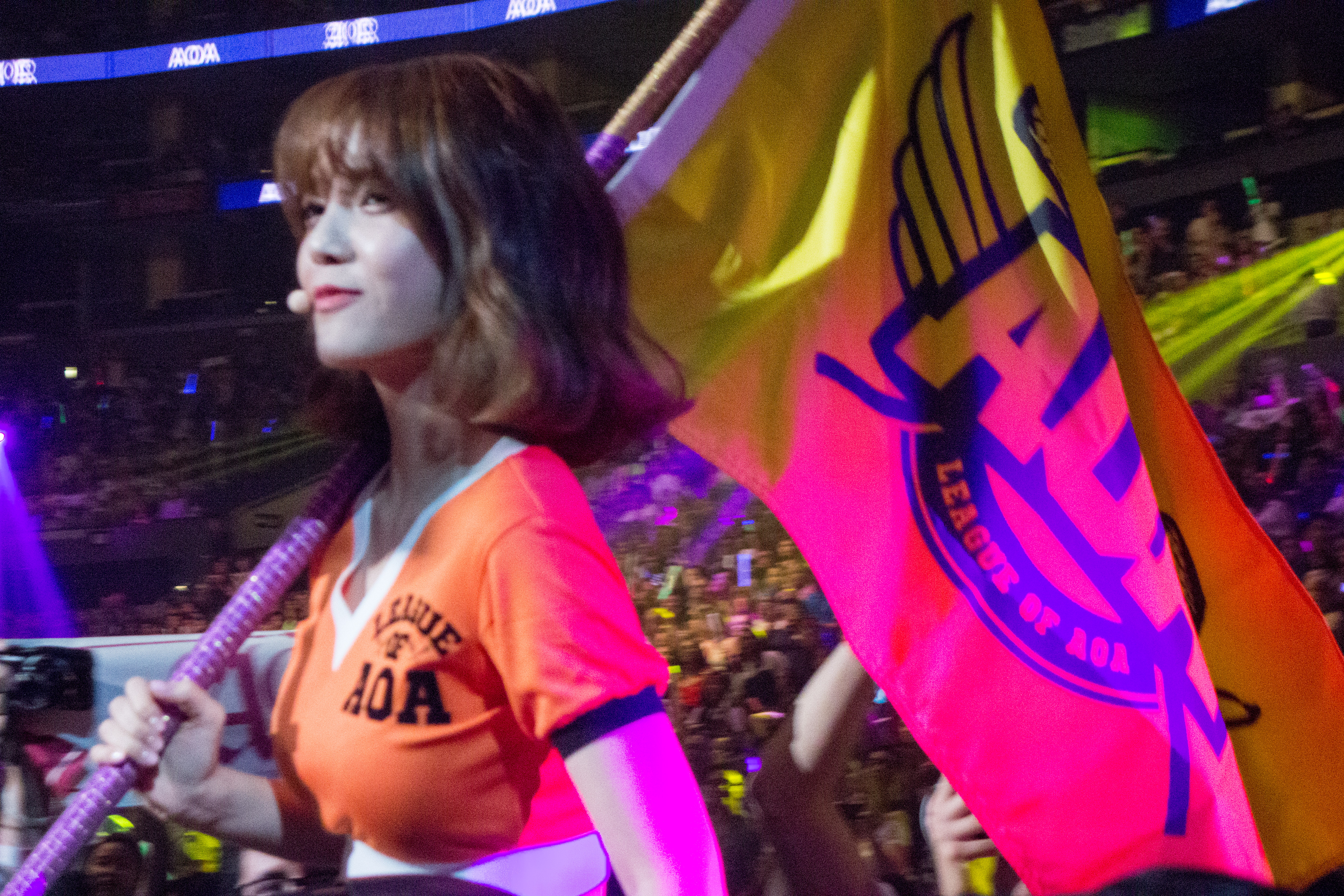 KCON 2015, AOA on stage.